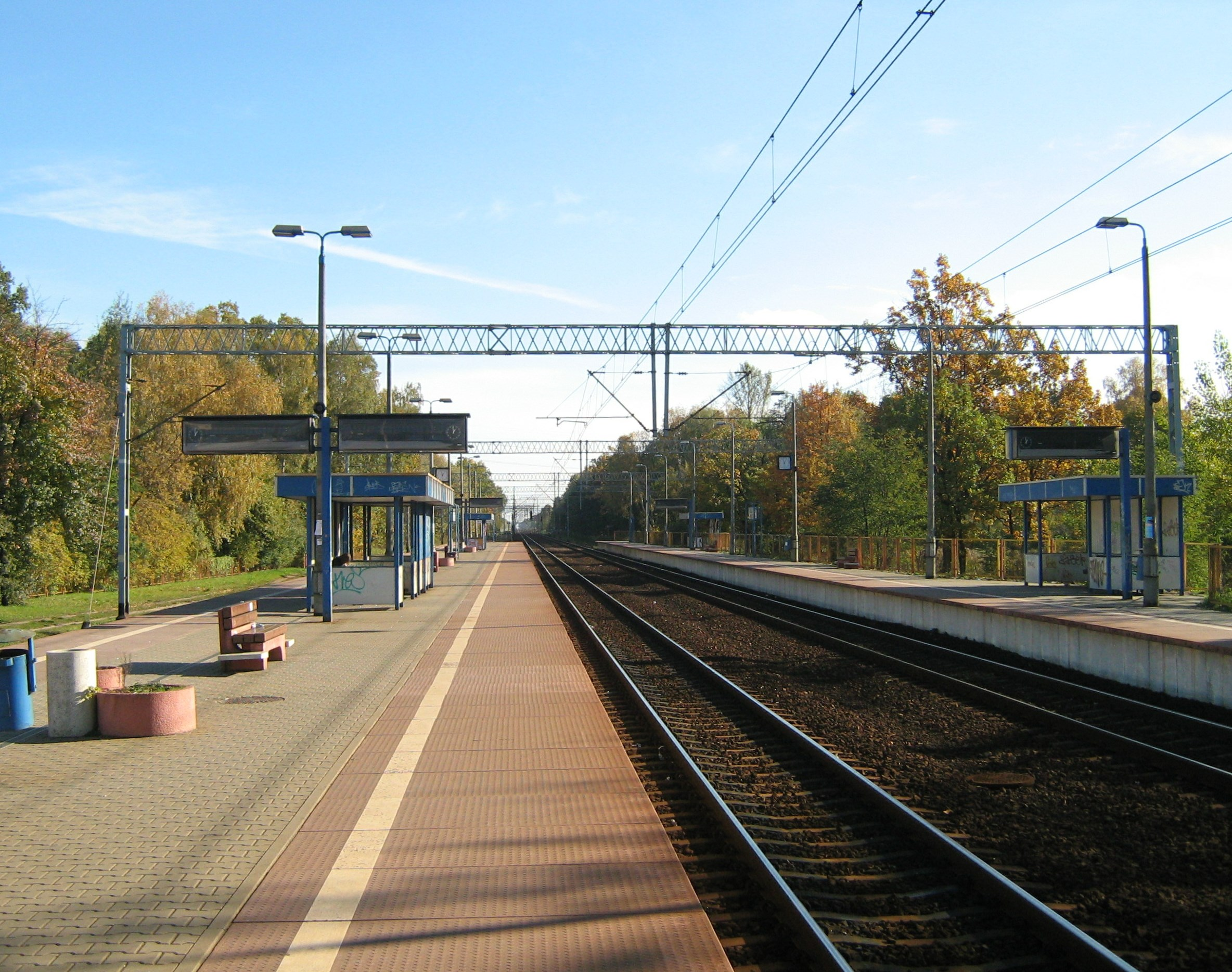 Sulejowek Milosna Railway station (Poland).